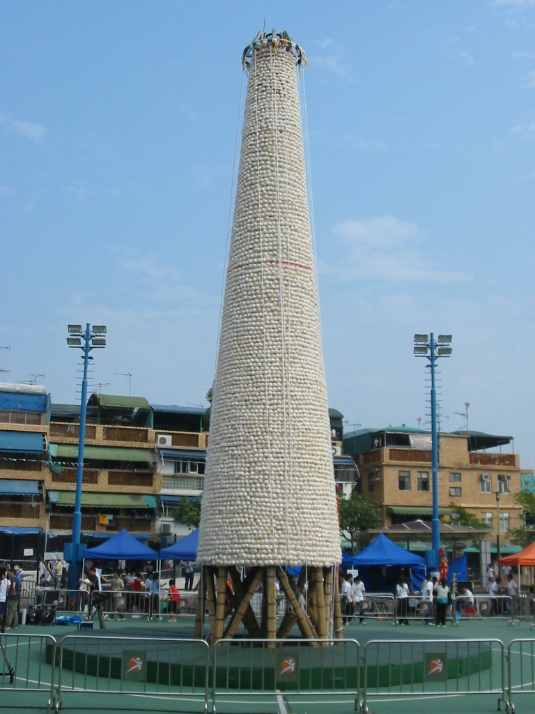 The Bun Tower used for bun-scrambling competition during Cheung Chau Bun Festival 2008.